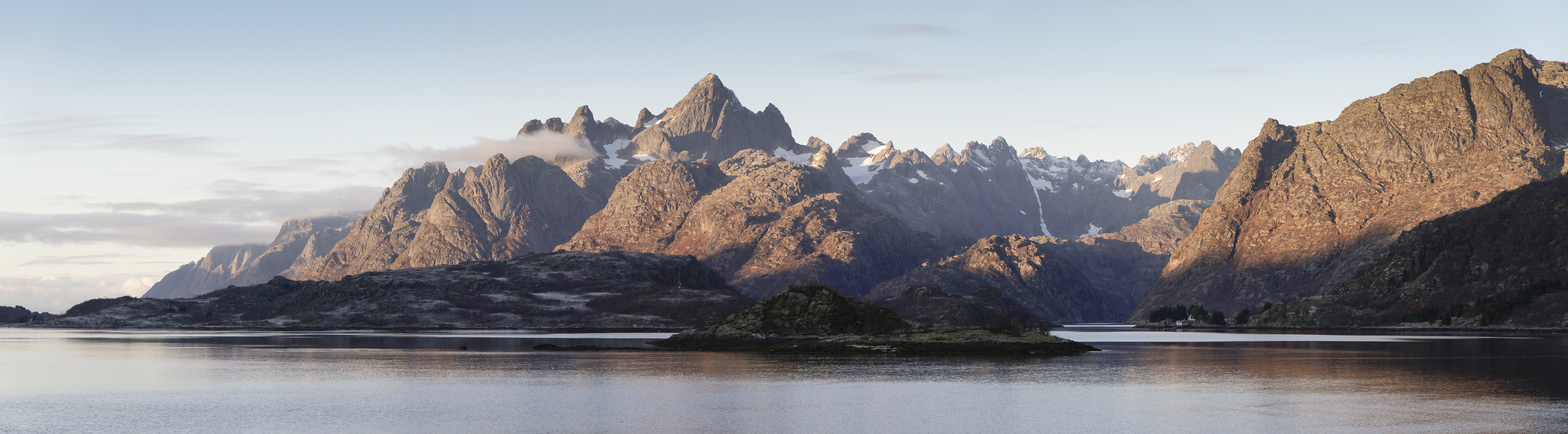 A morning view towards Trolltindan mountains and Trollfjorden from the east coast of Raftsundet in Nordland, Norway in 2012 October. The mountains are located on the Austvågøya island, Lofoten and the viewpoint is on Hinnøya island.